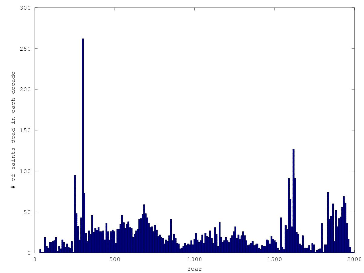 Number of saints dead in each decade from year 0 to 2000, based on the "Chronological list of saints and blesseds".